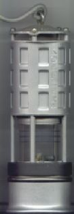 A modern Koehler flame safety lamp No. 209, as used in coal mines.